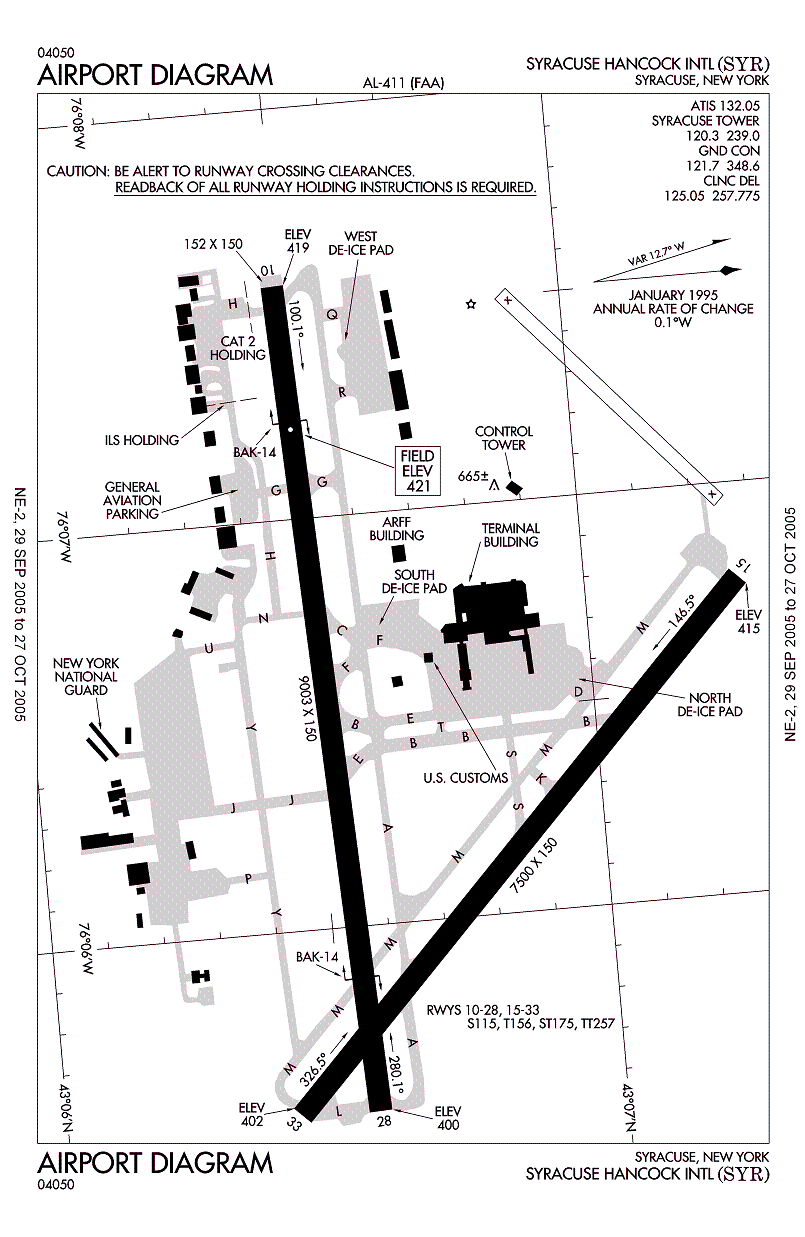 Syracuse Hancock International Airport, New York